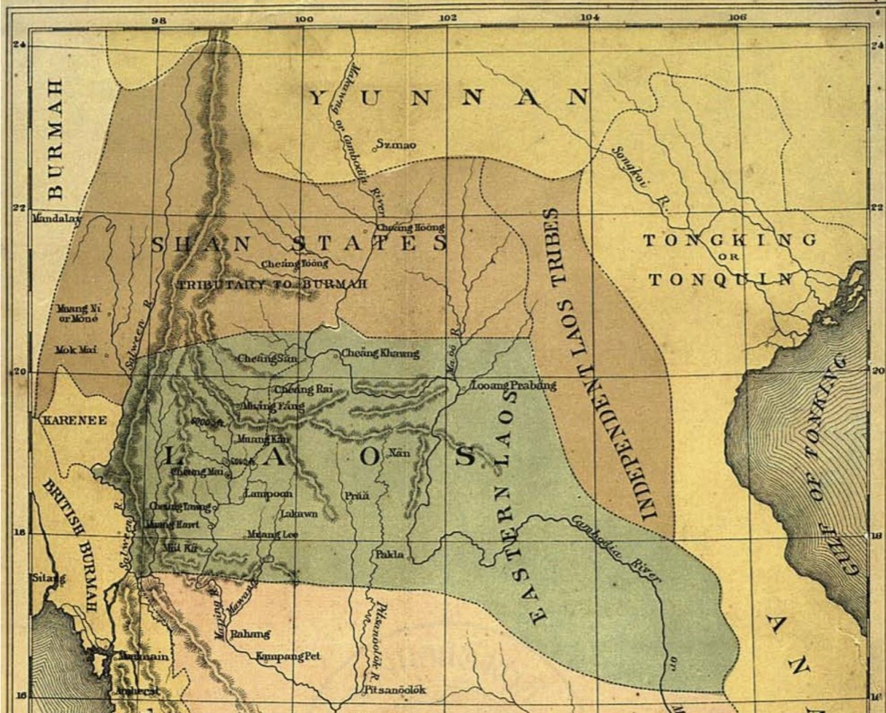 Northern section of Map of Siam, Laos, Cambodia, and Shan States (1884)